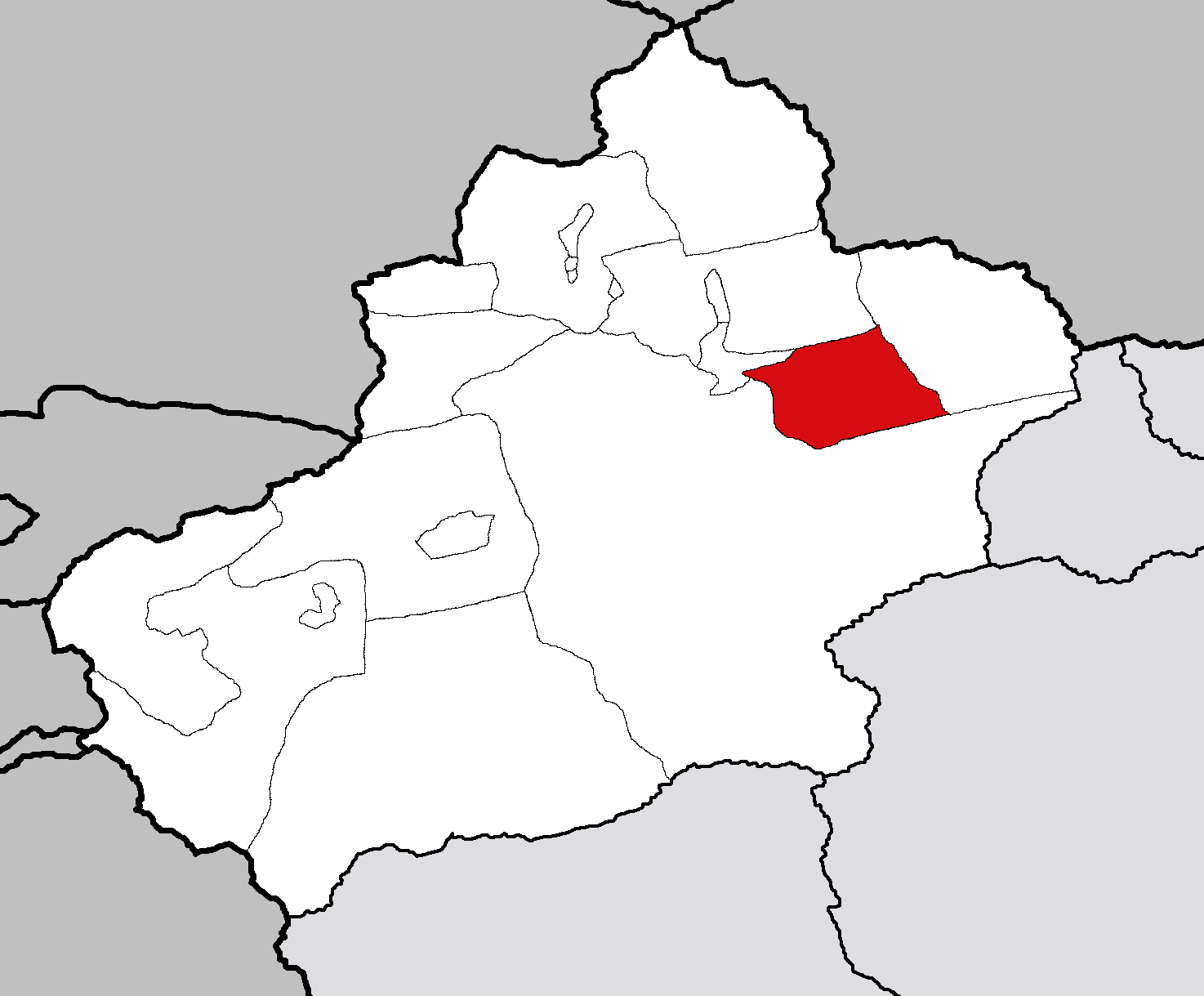 Maps of Xinjiang Uygur Autonomous Region of China